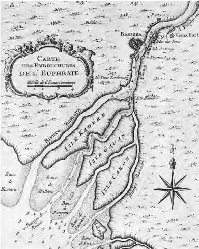 Detail of 1764 map showing location of Basra